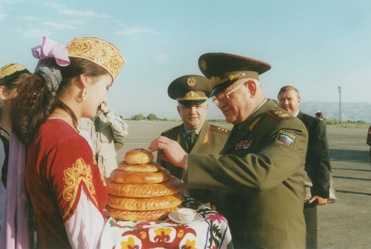 Совет министров обороны стран Содружества – локомотив развития военного сотрудничества государств СНГ